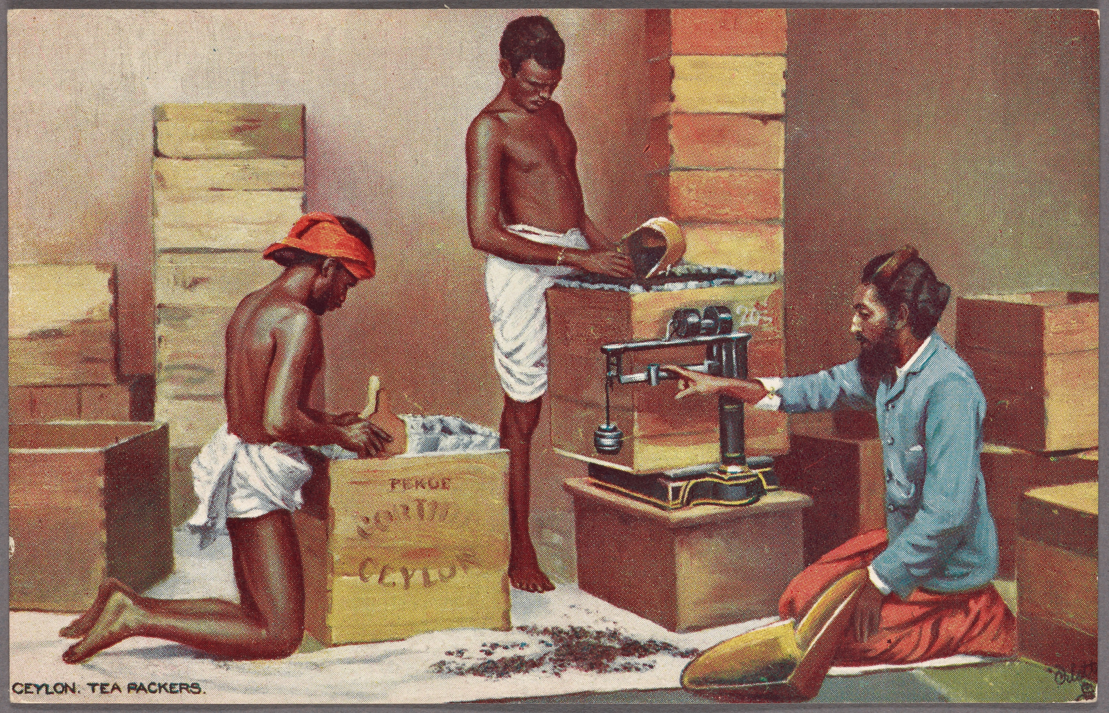 Printed on verso: "The amount of tea exported annually from Ceylon exceeds 150,000,000 lbs., and about 100,000 coolies from Southern India are employed in the tea-gardens. The greatest tea-districts are Dickoya and Dimbula, where a large number of coolies are employed under the skilled charge of such men as the Cingalese overseer here shown."